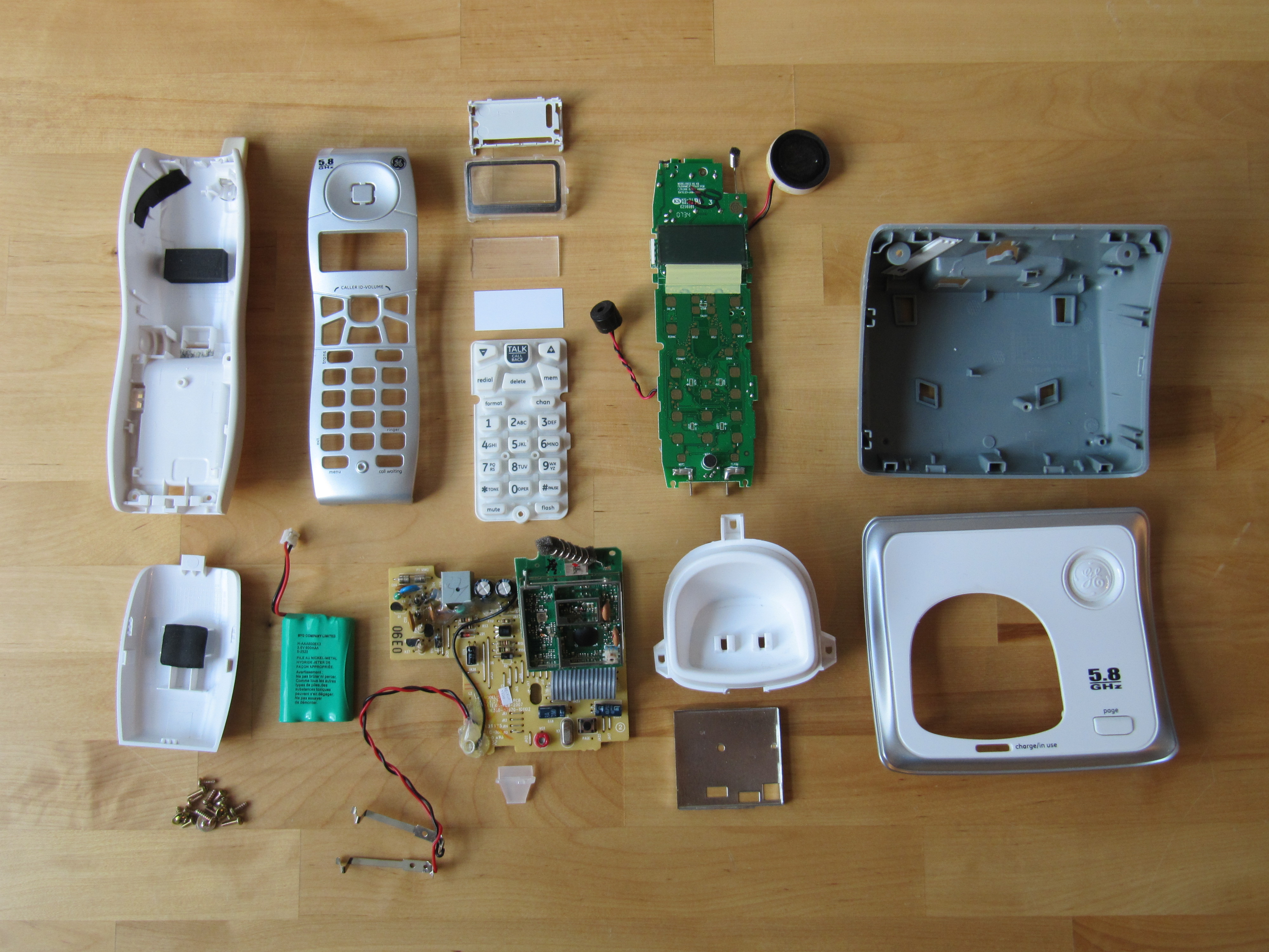 This crappy old cordless phone broke, so I took it apart. Not to make any attempt to fix it -- I haven't the first clue how -- just for the hell of it. One interesting thing I discovered: the little "antenna" protrusion on the headset casing didn't actually contain the antenna at all. It's just cosmetic; the antenna was fully inside the unit.